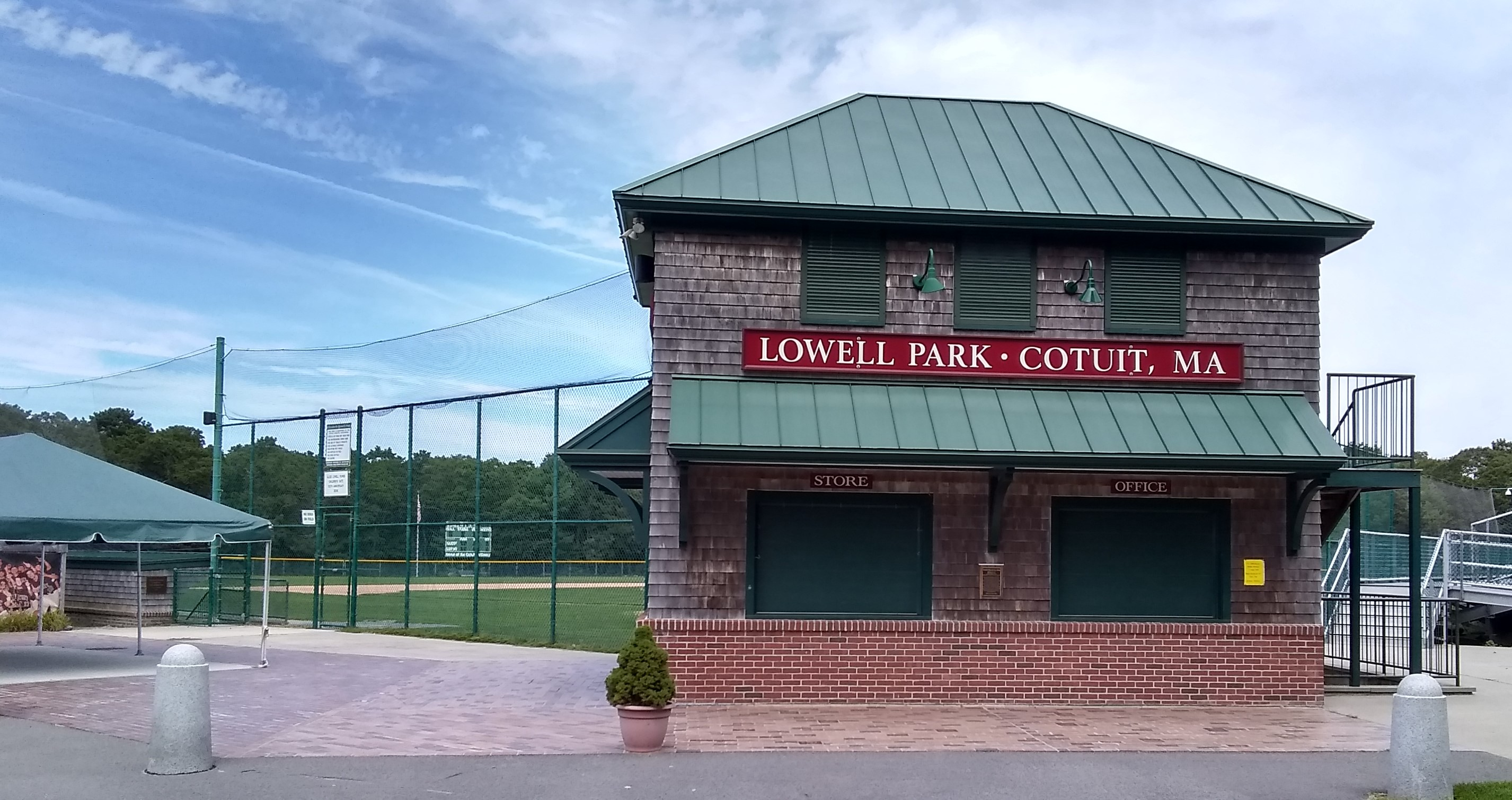 Lowell Park, Cotuit, Massachusetts, 2019